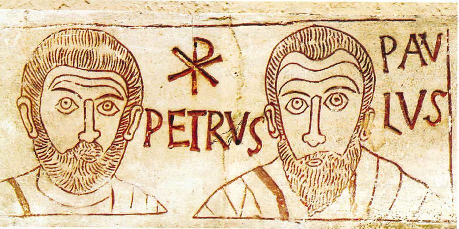 Saints Peter and Paul, from an etching in a catacombe